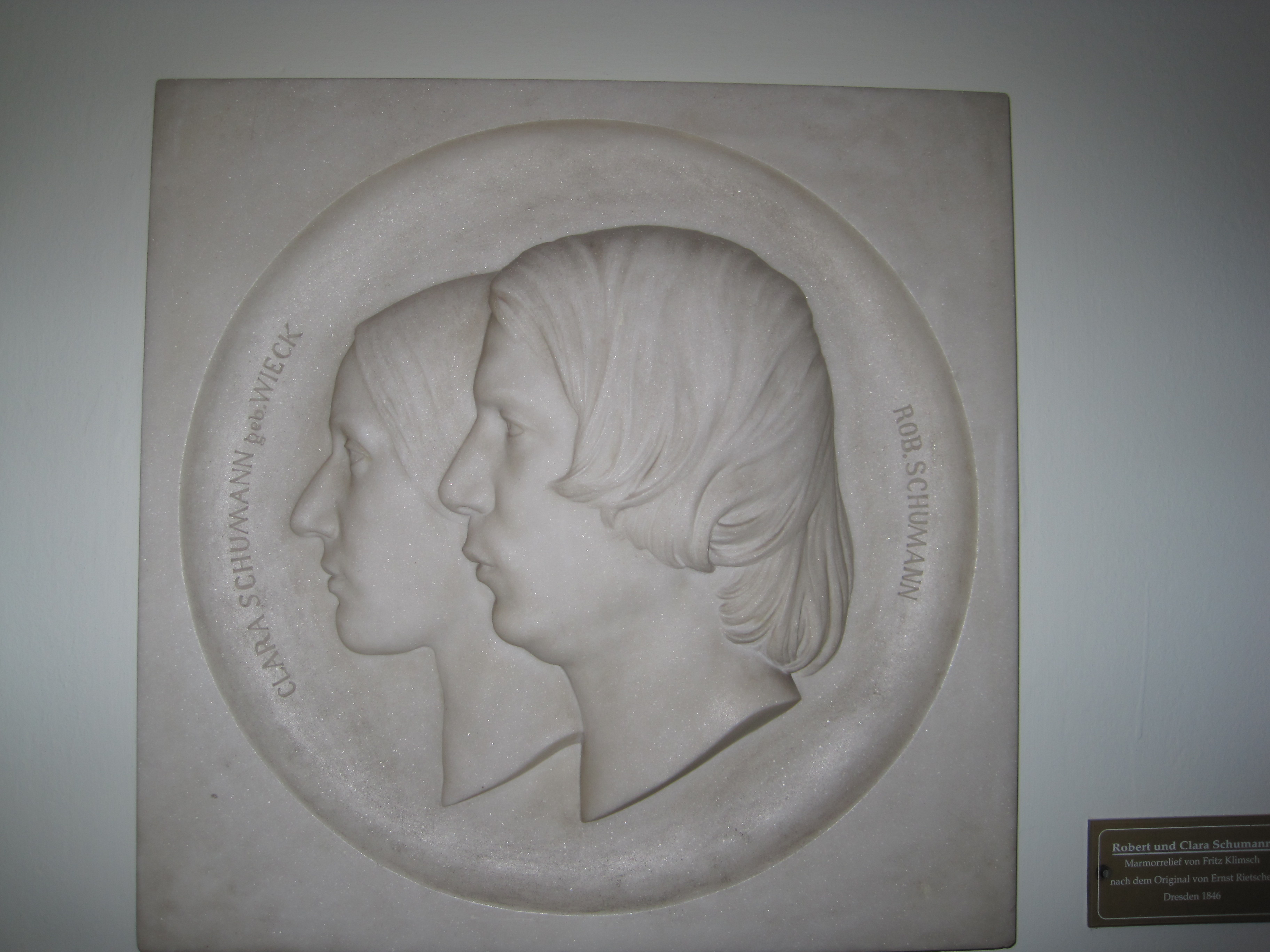 Sculpture of Robert and Clara Schumann by Ernst Rietschel, 1846 (a sample at the museum, house of Robert Schumann in Zwickau, Saxony).